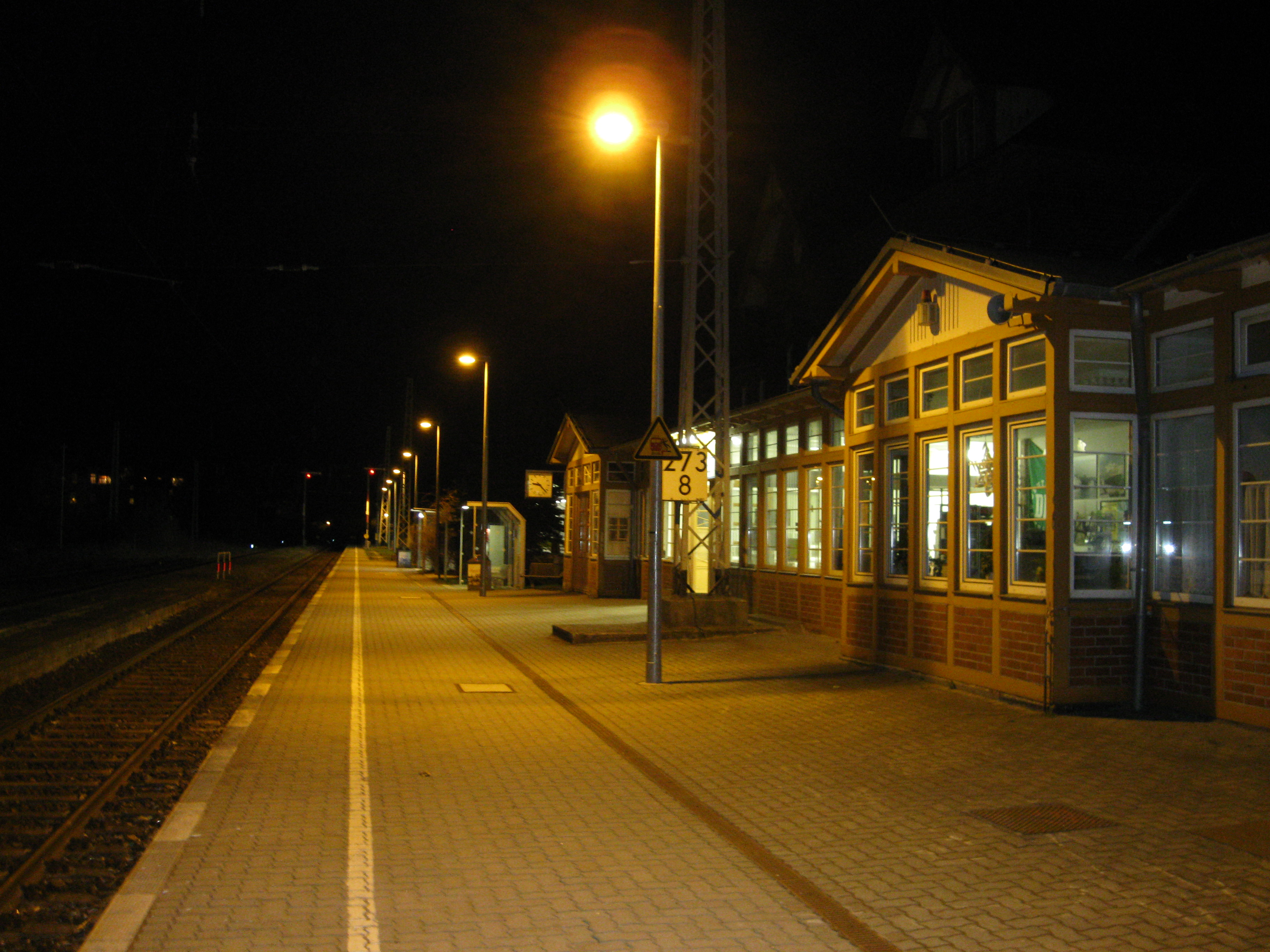 Railway Station in Sassnitz, Rügen, Mecklenburg-Vorpommern, Germany